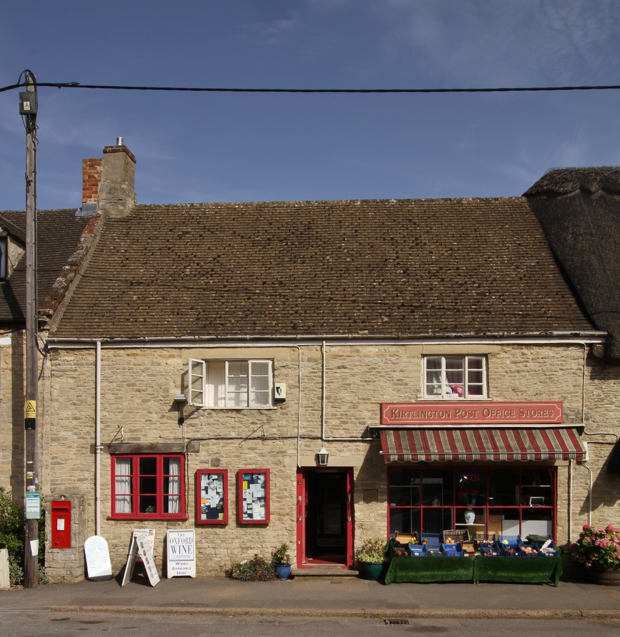 Kirtlington Post Office Stores, Oxford Road, Kirtlington, Oxfordshire, seen from the west